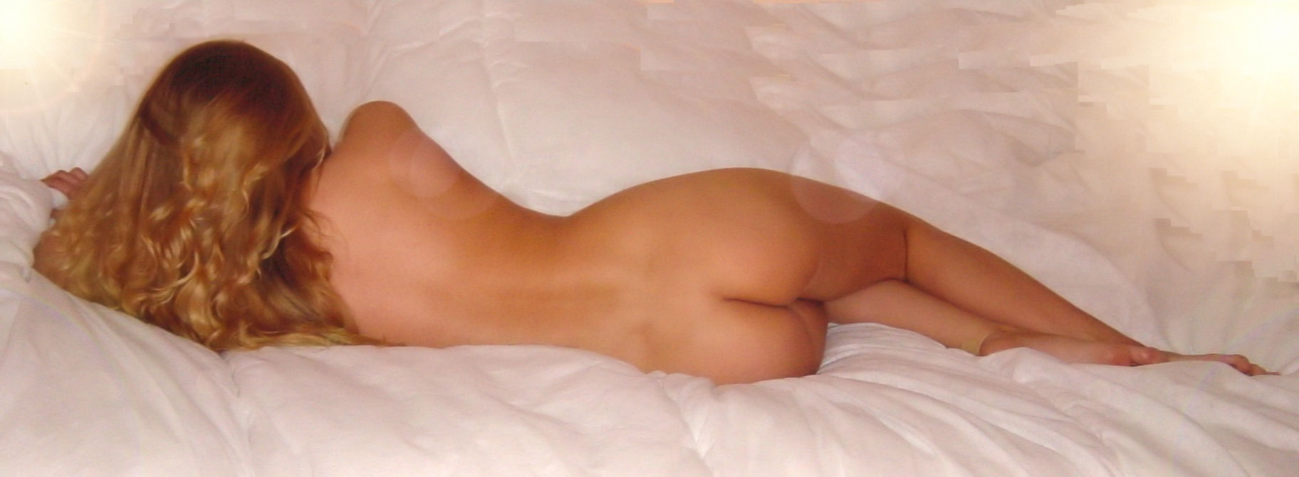 Blonde model relaxing on a fluffy white duvet - enhanced by some cloning (of the duvet) and lighting effects.